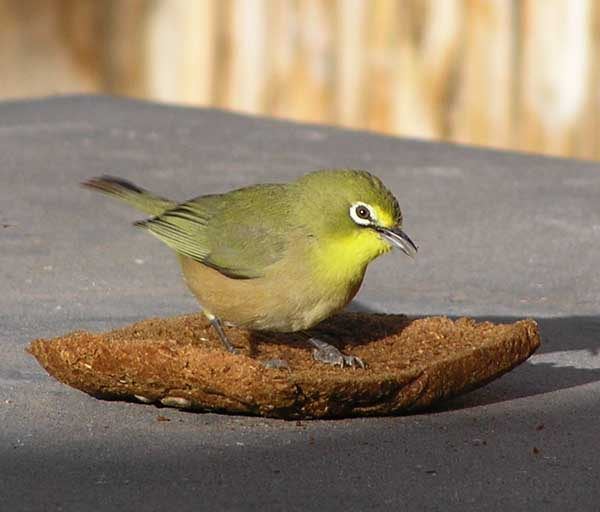 Cape White-Eye Zosterops pallidus at Aussenkehr, Karas, Namibia